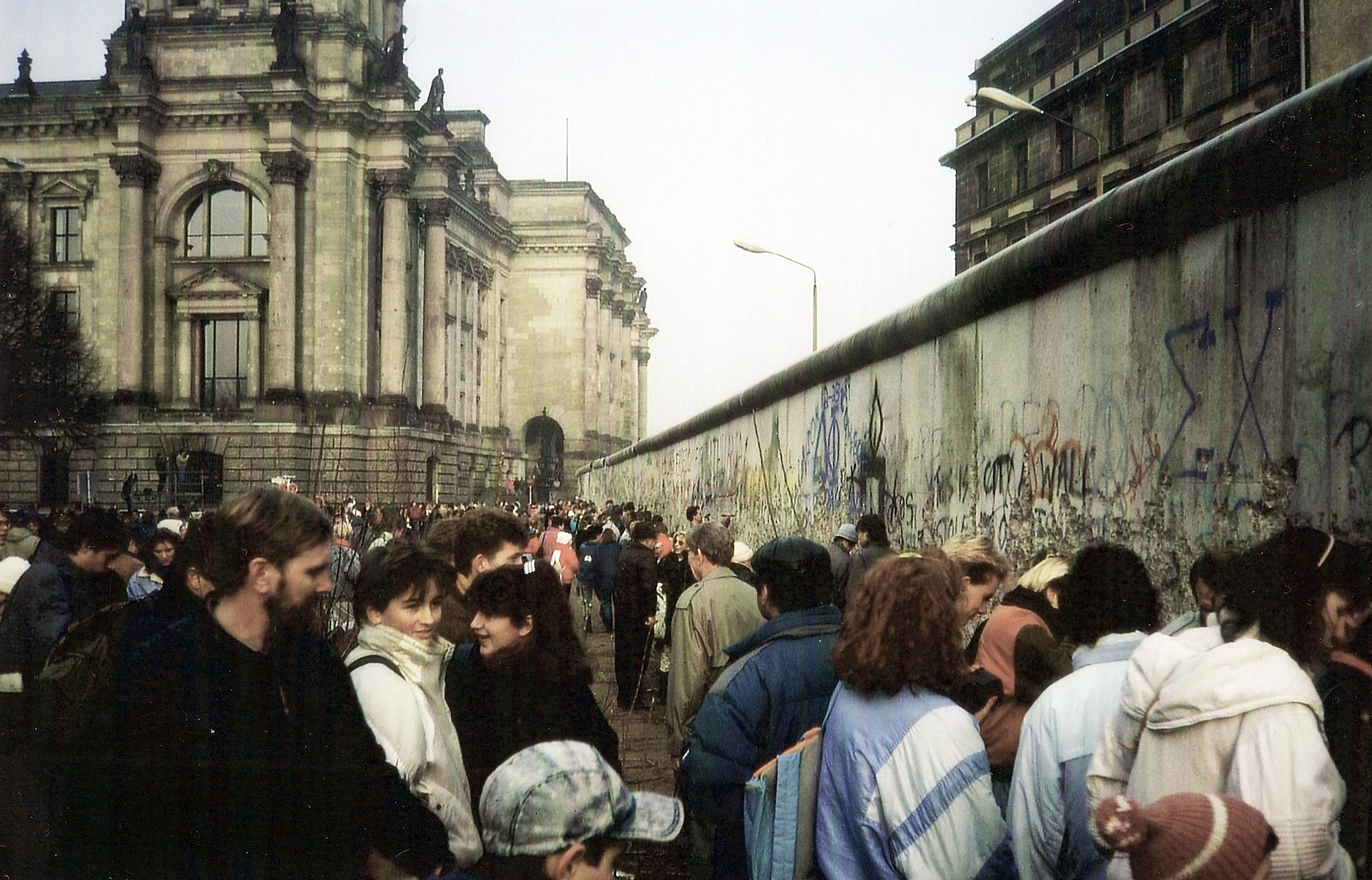 Berlin Wall behind Reichstag building (left), protestors and "wallpickers"